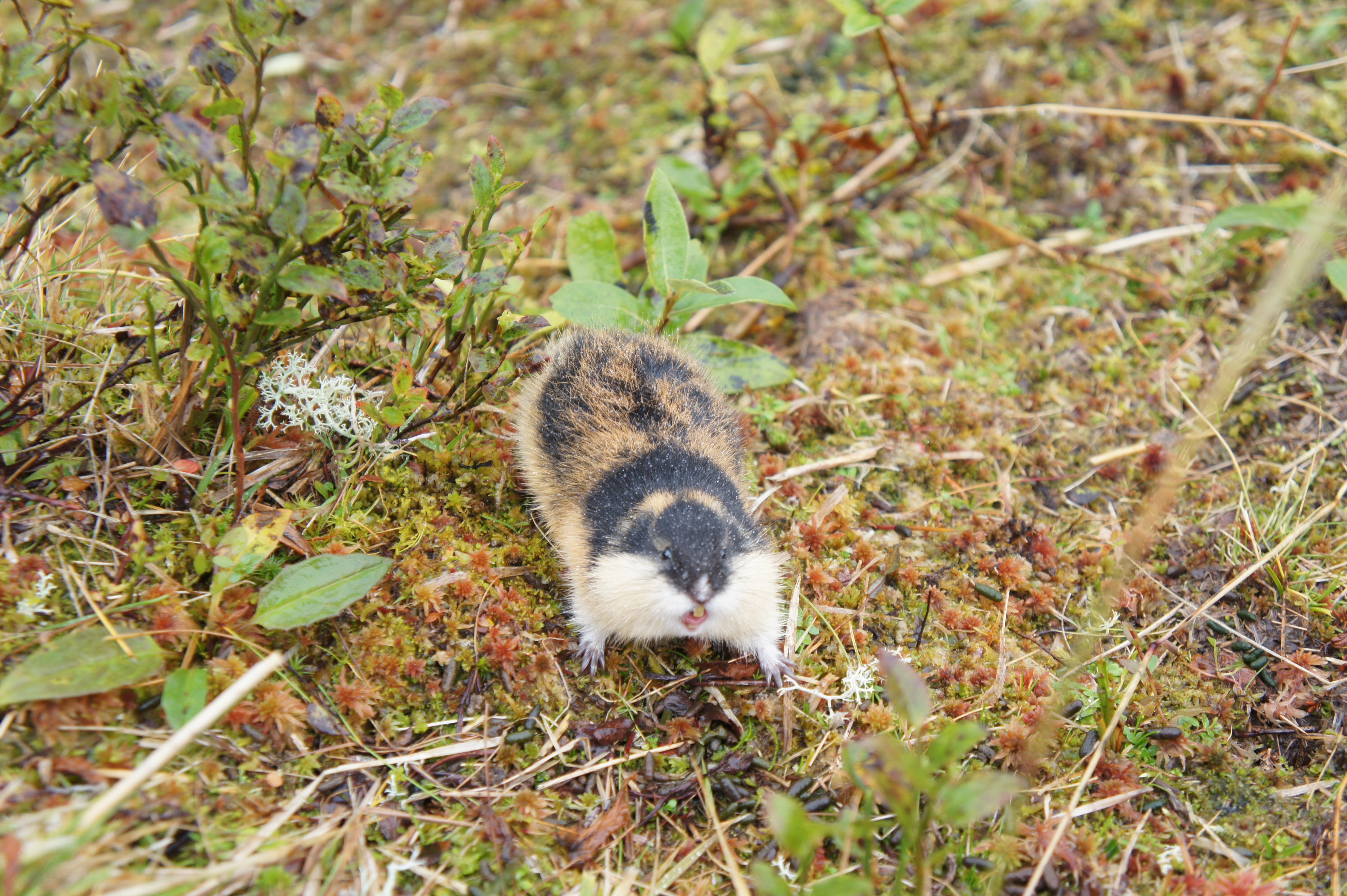 Lemming